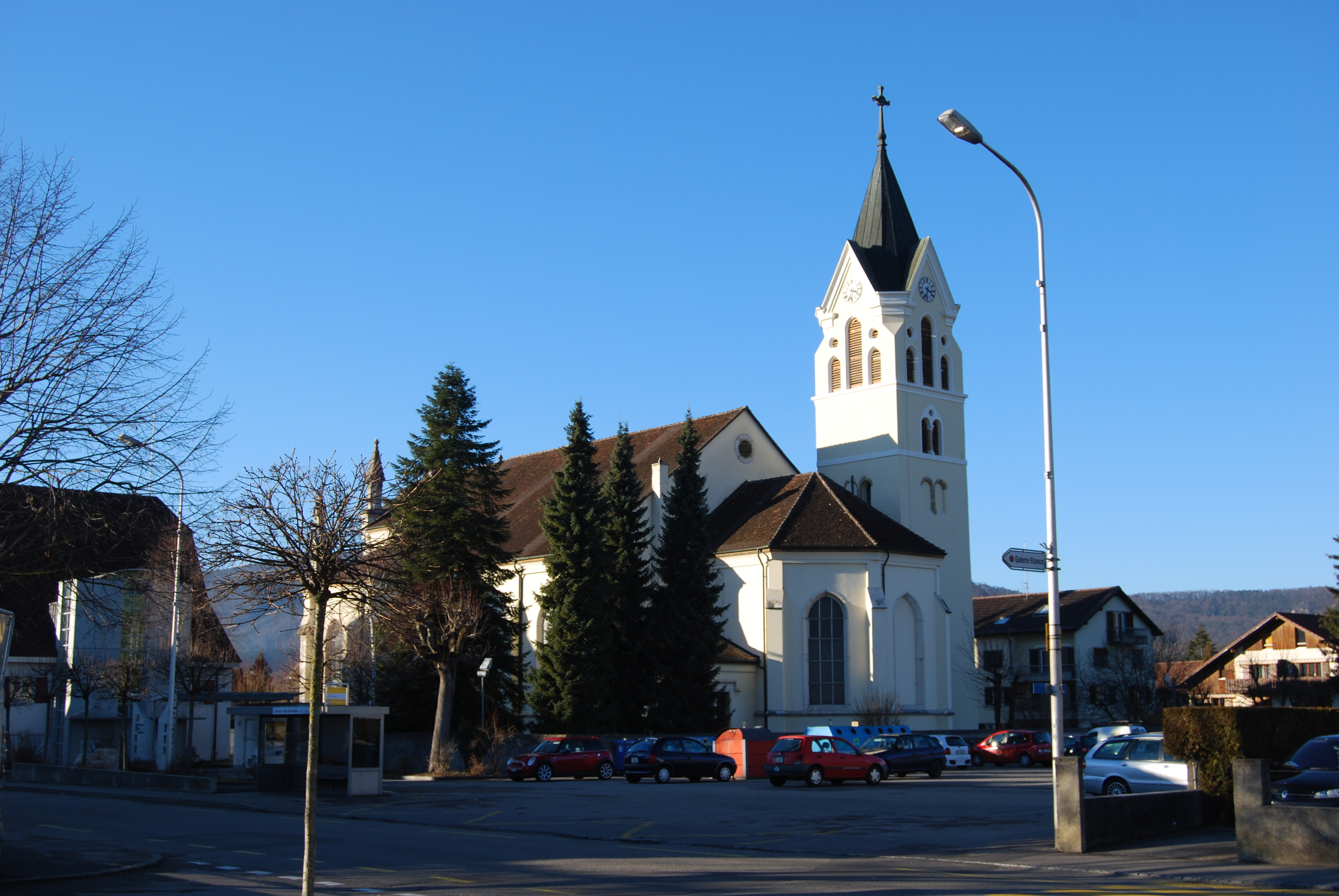 Church of Courroux, canton of Jura, Switzerland